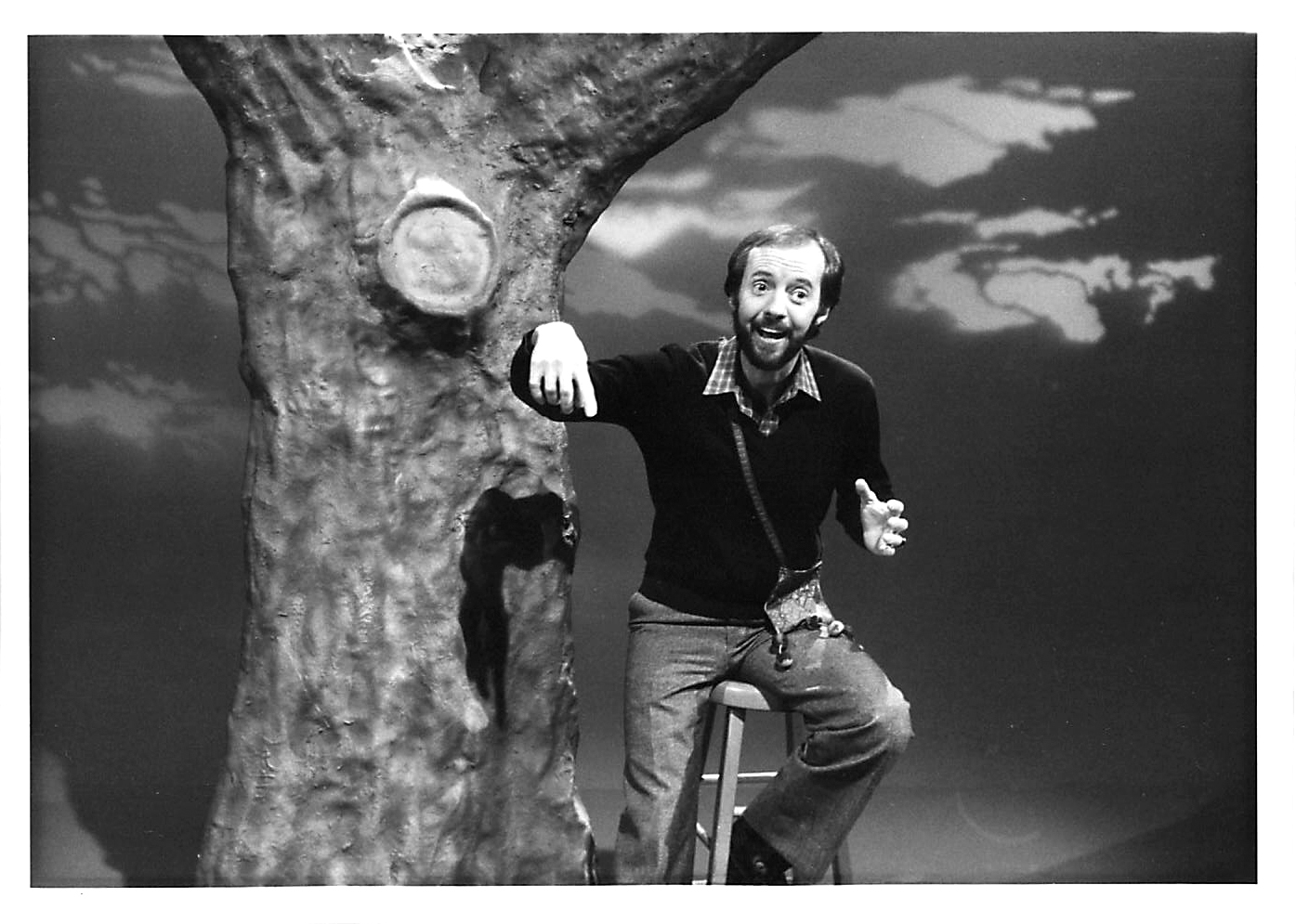 Storytelling show on KING-TV, Seattle, WA, 1977.